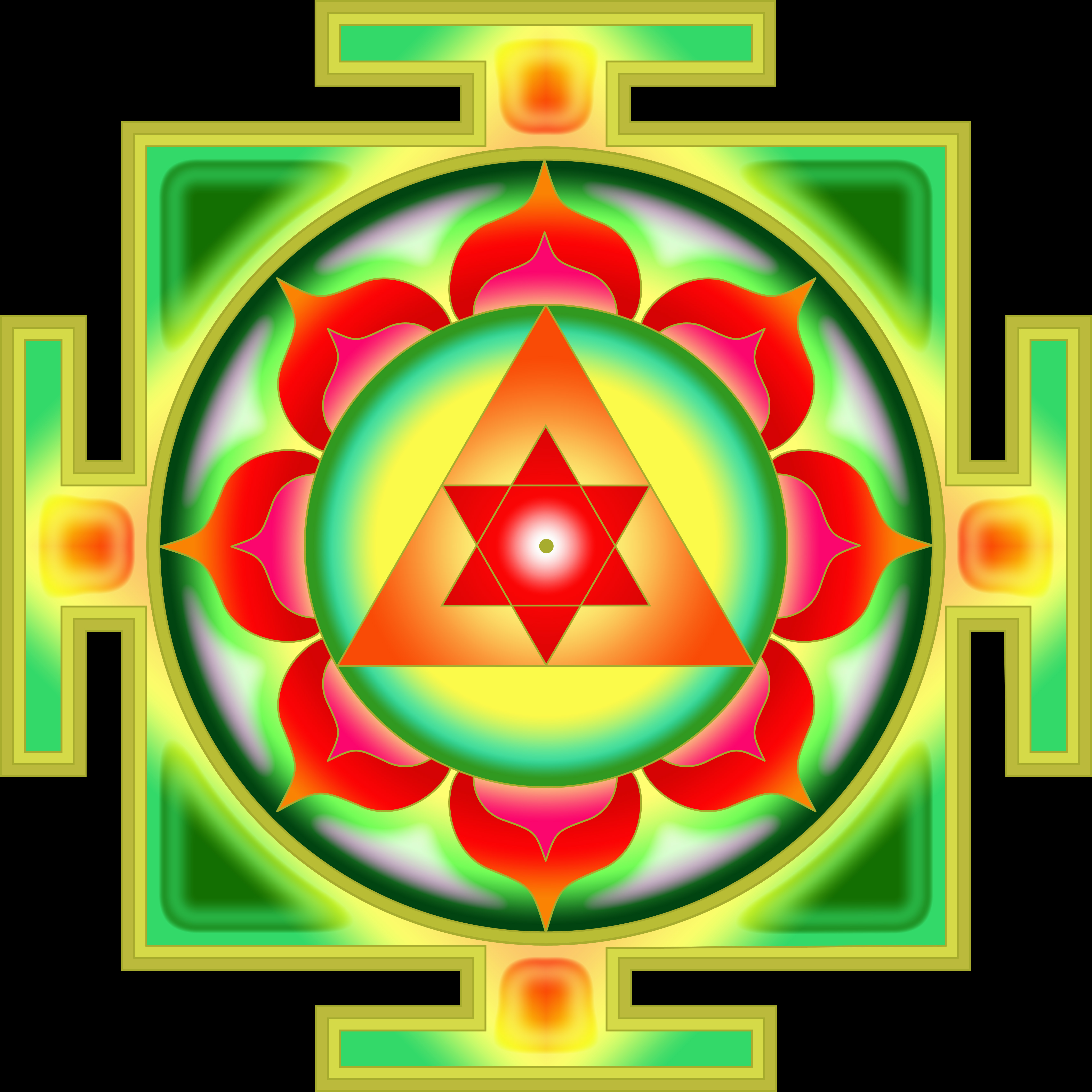 Ganesha Yantra